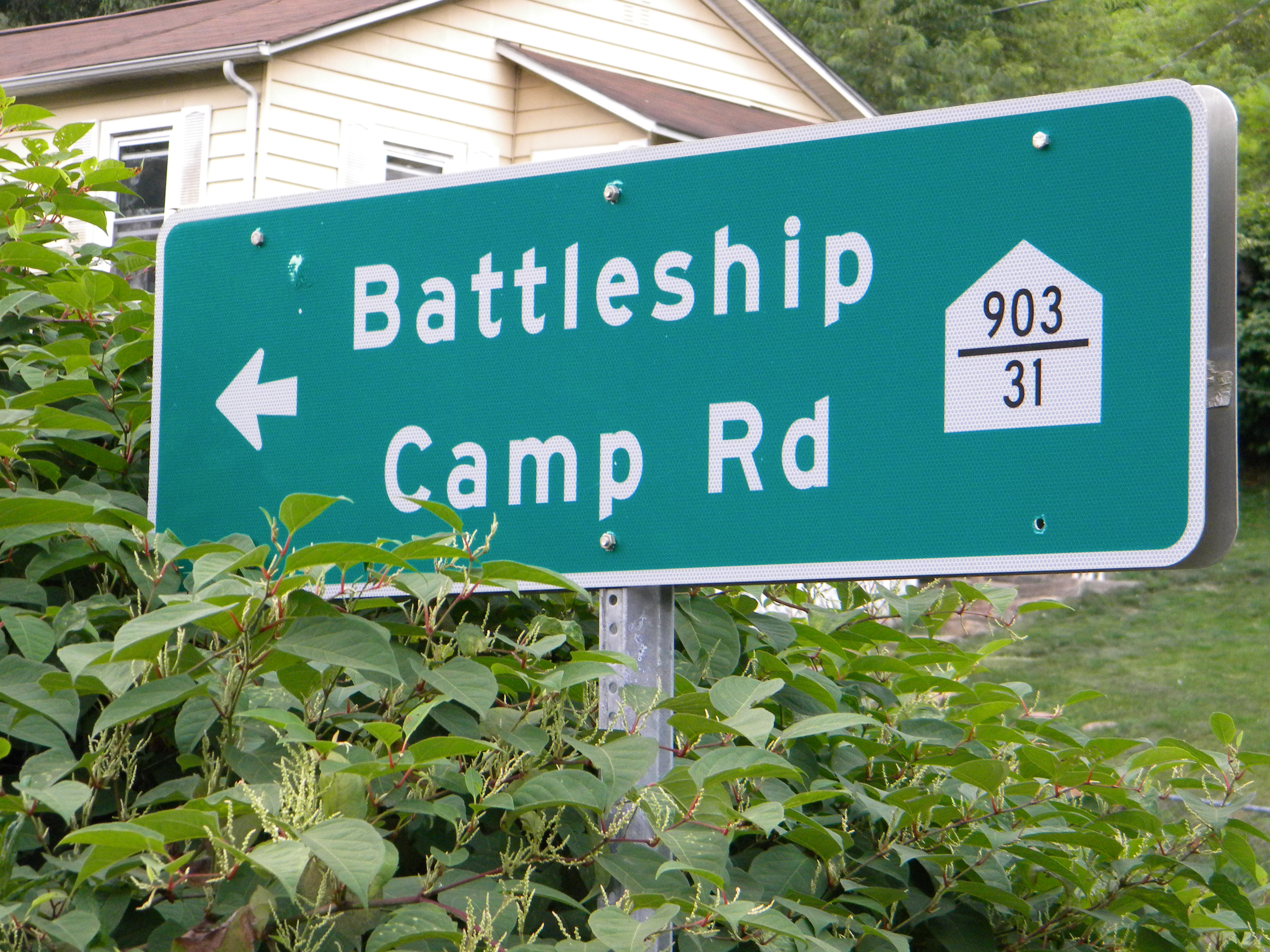 Sign in Battleship coal camp